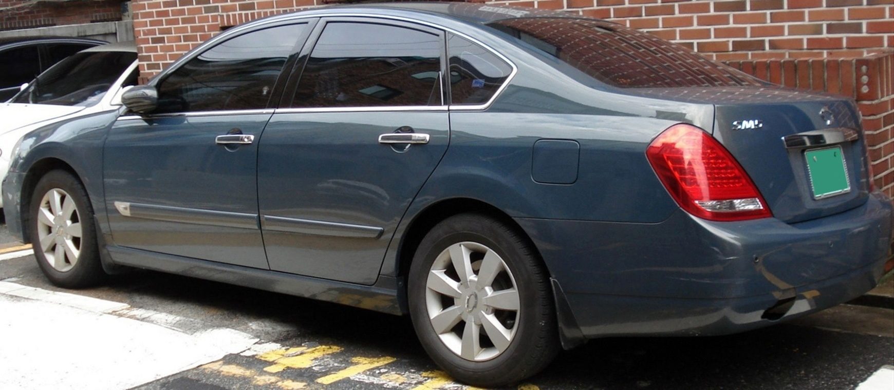 Renault Samsung New SM5